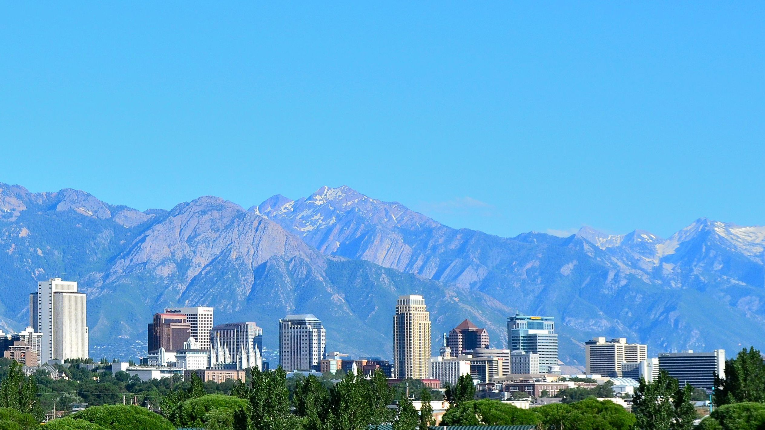 The skyline of Salt Lake City, Utah as seen in July 2011.